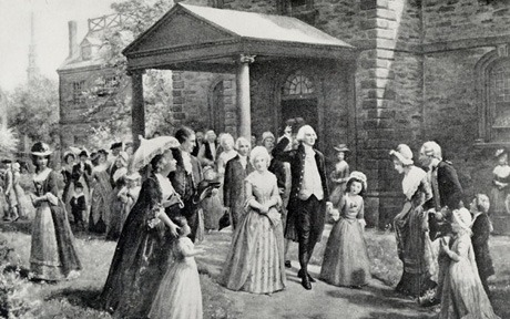 George Washington at St. Paul's Chapel 1789